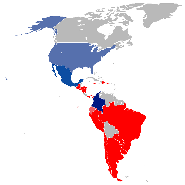 América Móvil brand names in North/South America Claro Porta (Ecuador) Comcel (Colombia) Telcel (Mexico) TracFone Wireless (USA) No América Móvil brand